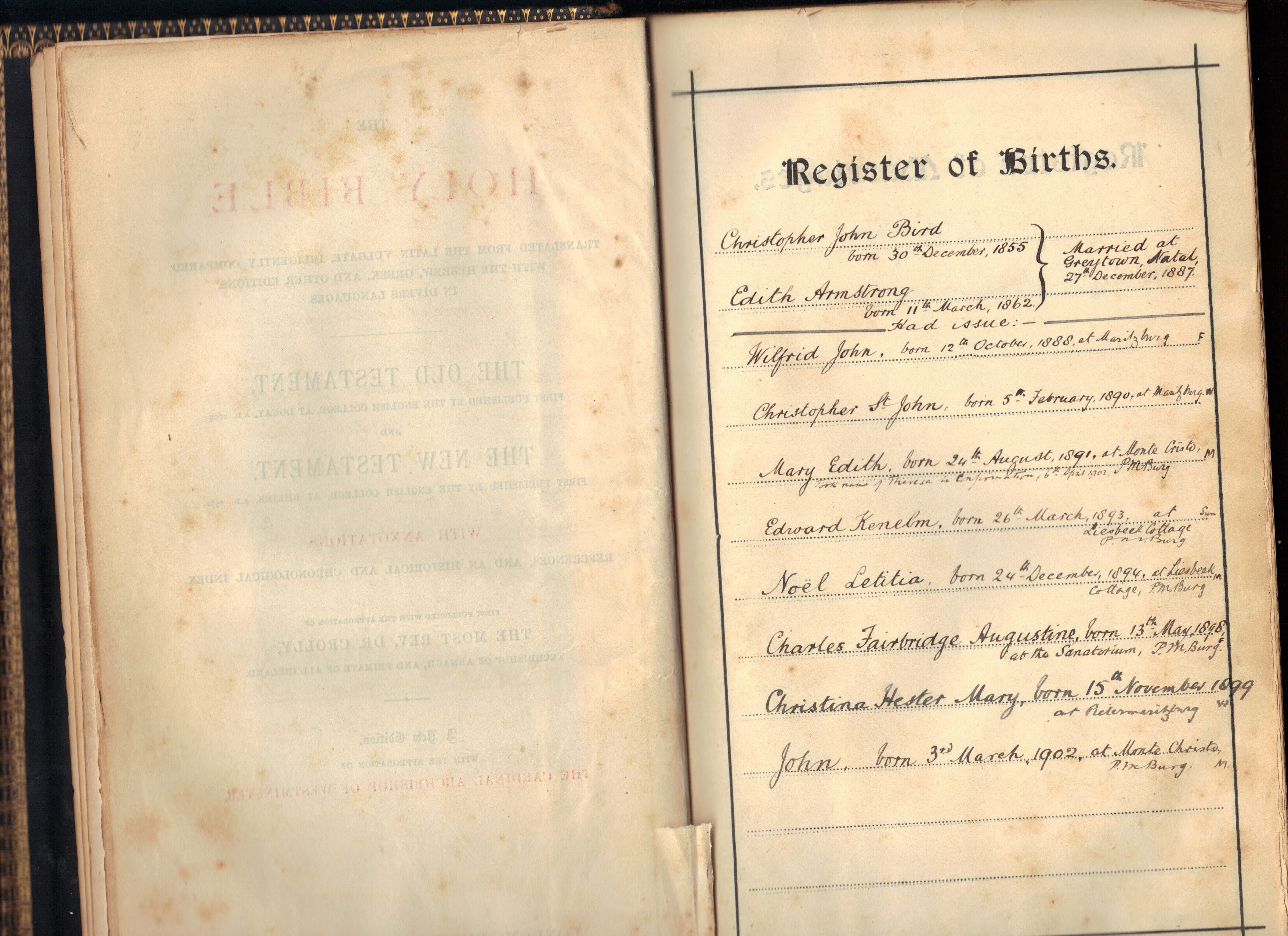 Bird family birth registry from Bird family bible